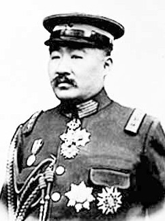 Zhou Ziqi was a Chinese politician, Premier of Beiyang Government in 1922.